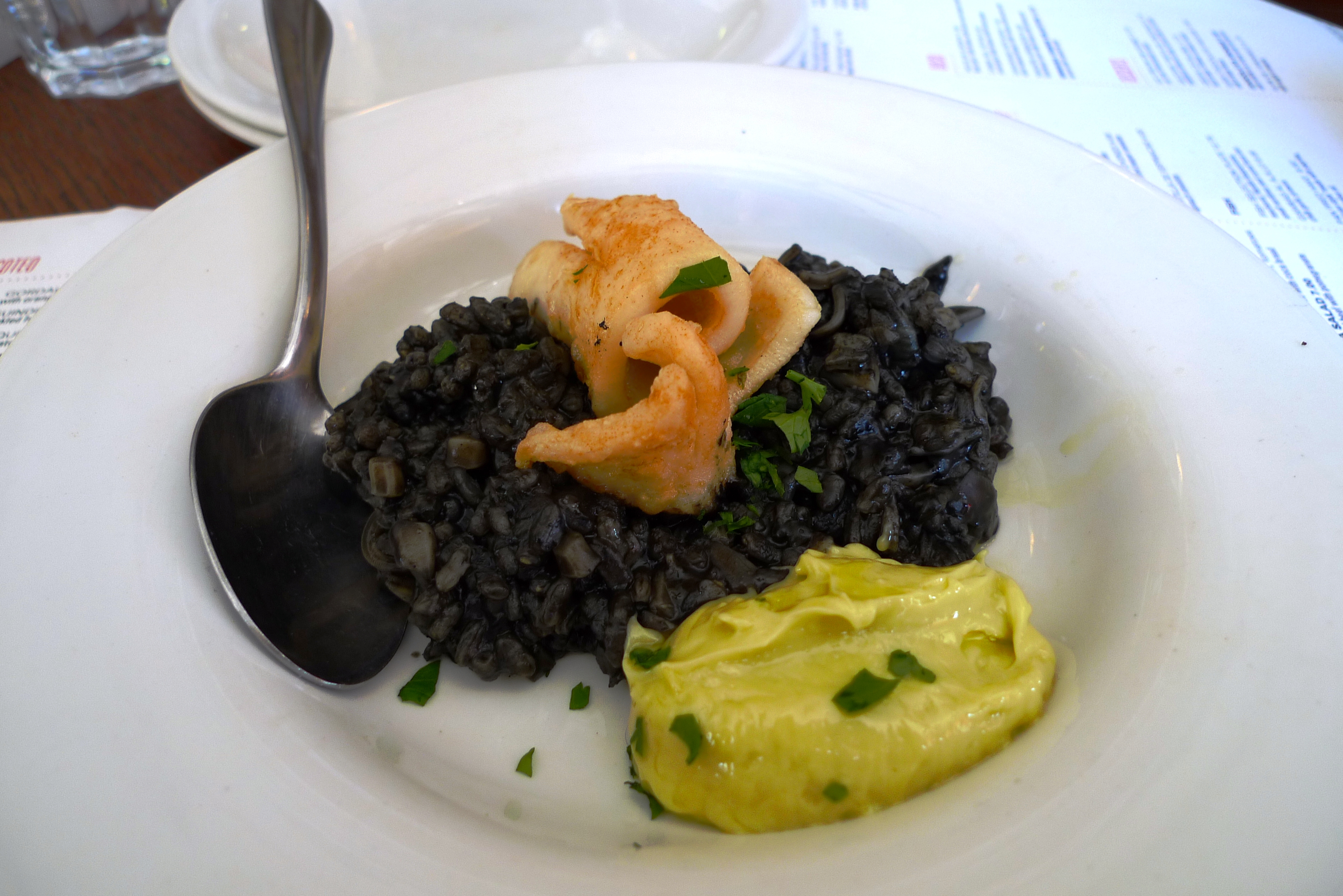 Squid on black rice, and really lovely it was too. At Tapas Brindisa, Southwark Street.